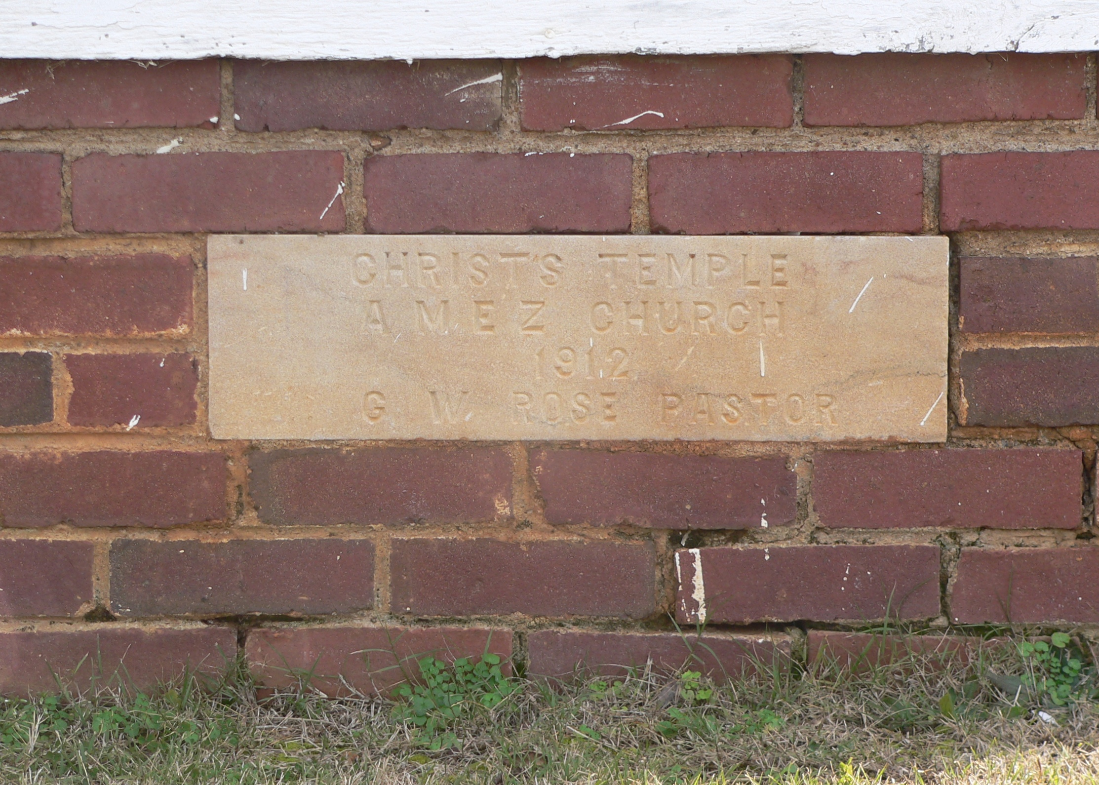 Cornerstone at right front of United In Faith Gospel Church, located at 235 E. Meeting Street in Dandridge, Tennessee. The building faces northwest. The cornerstone indicates that the building was originally Christ Temple AME Zion Church.